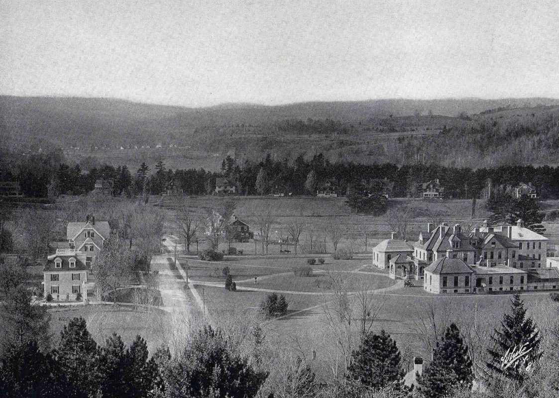 The view of the Dartmouth College campus, looking west from the top of Bartlett Tower.